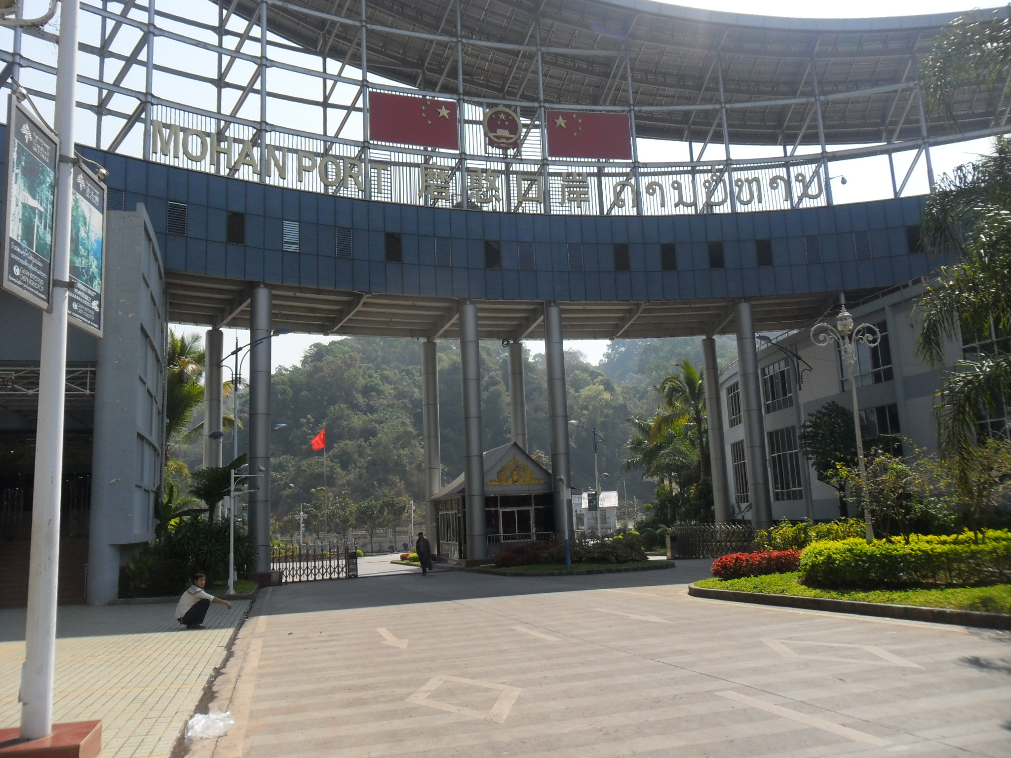 Mohan border gate in Yunnan,China